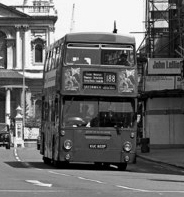 London Transport bus, an unidentified DMS class Daimler Fleetline double-decker, pictured heading west along the Strand, London, with St. Mary-le-Strand Church in the background. It's operating London Buses route 188 en route to Greenwich - having come south down the Kingsway and around the Aldwych, it's now in the left hand lane ready to turn left and continue over Westminster Bridge. The bus was most likely allocated to New Cross (NX) garage, with 6 required for the route on the relative quiet of a Sunday scene as is pictured here.